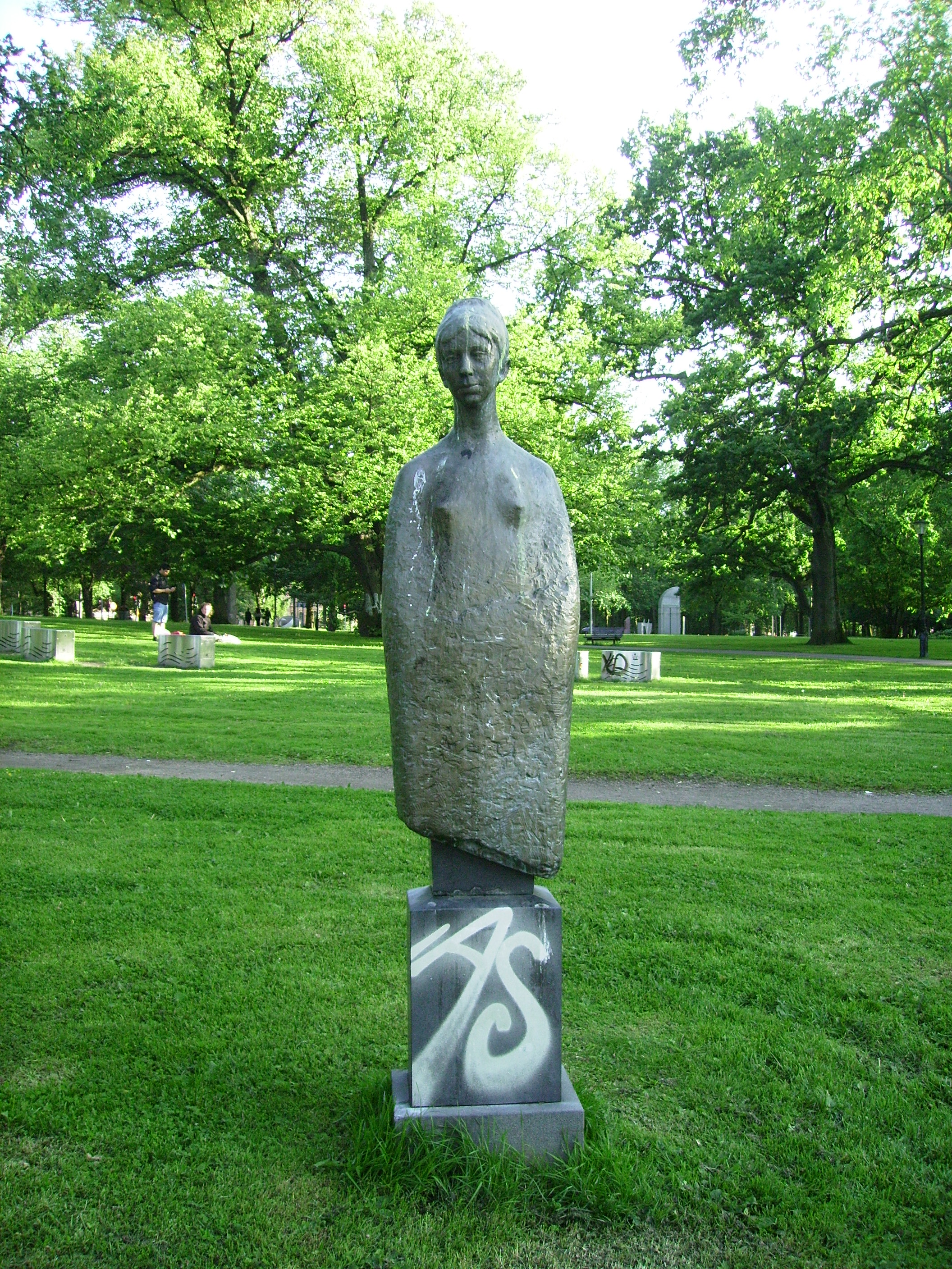 Picture of Våren (1995), sculpture in Gothenburg